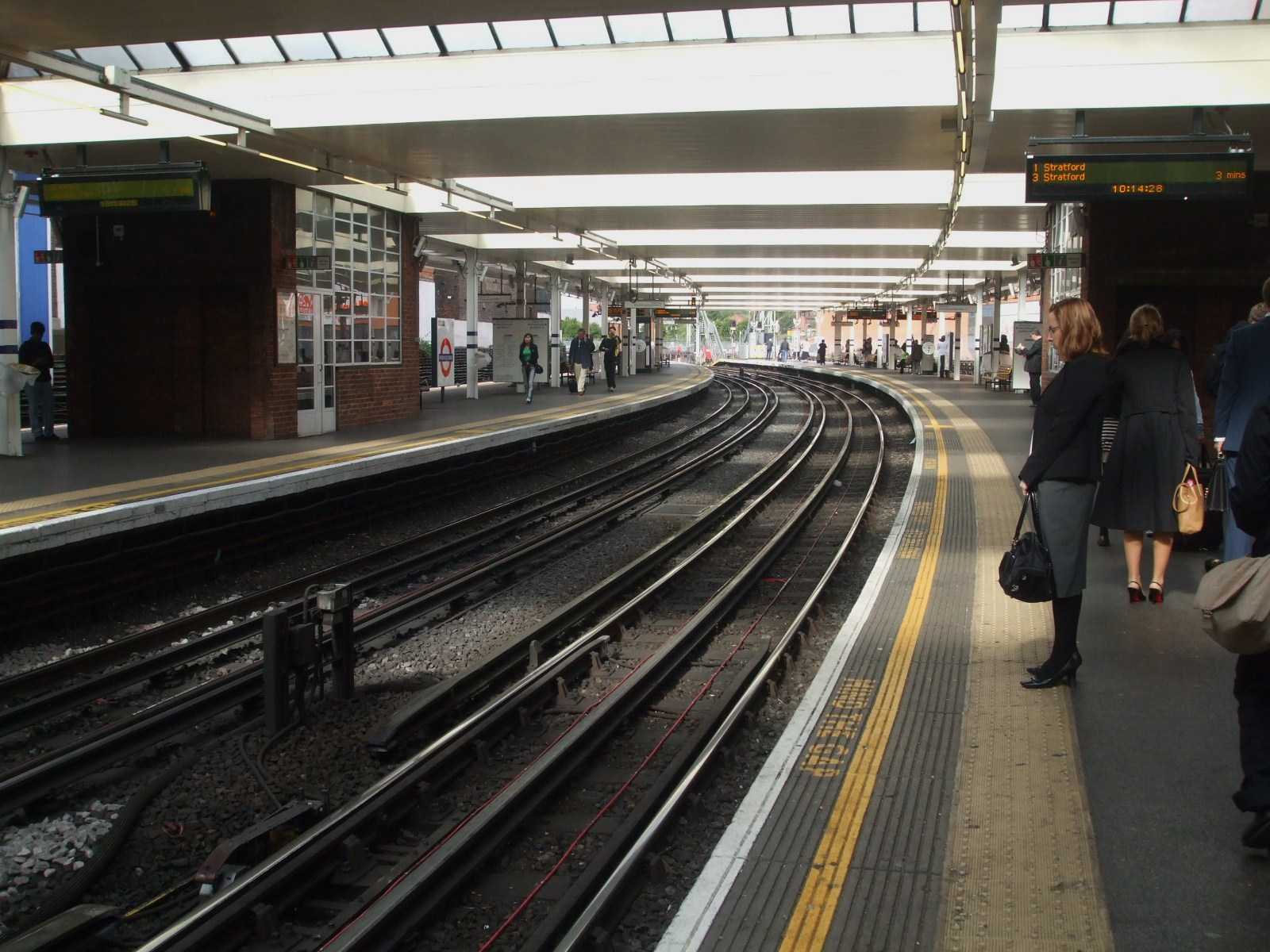 Finchley Road tube station southbound Jubilee platform looking north